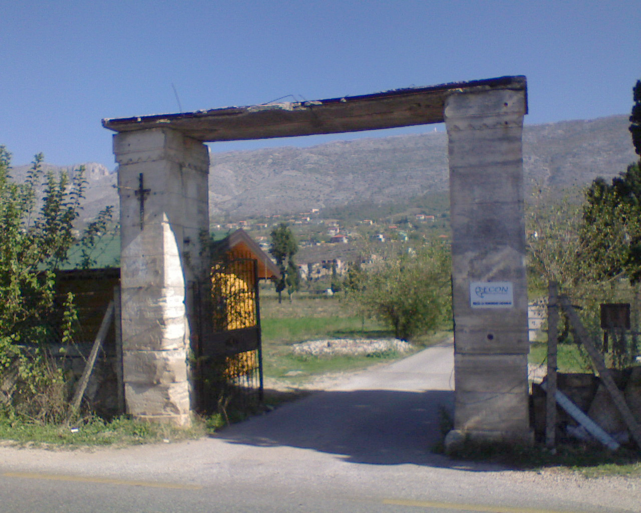 Gate in Gnojnice, municipality of Mostar (Bosnia and Herzegovina)